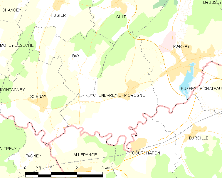 Map of French municipality